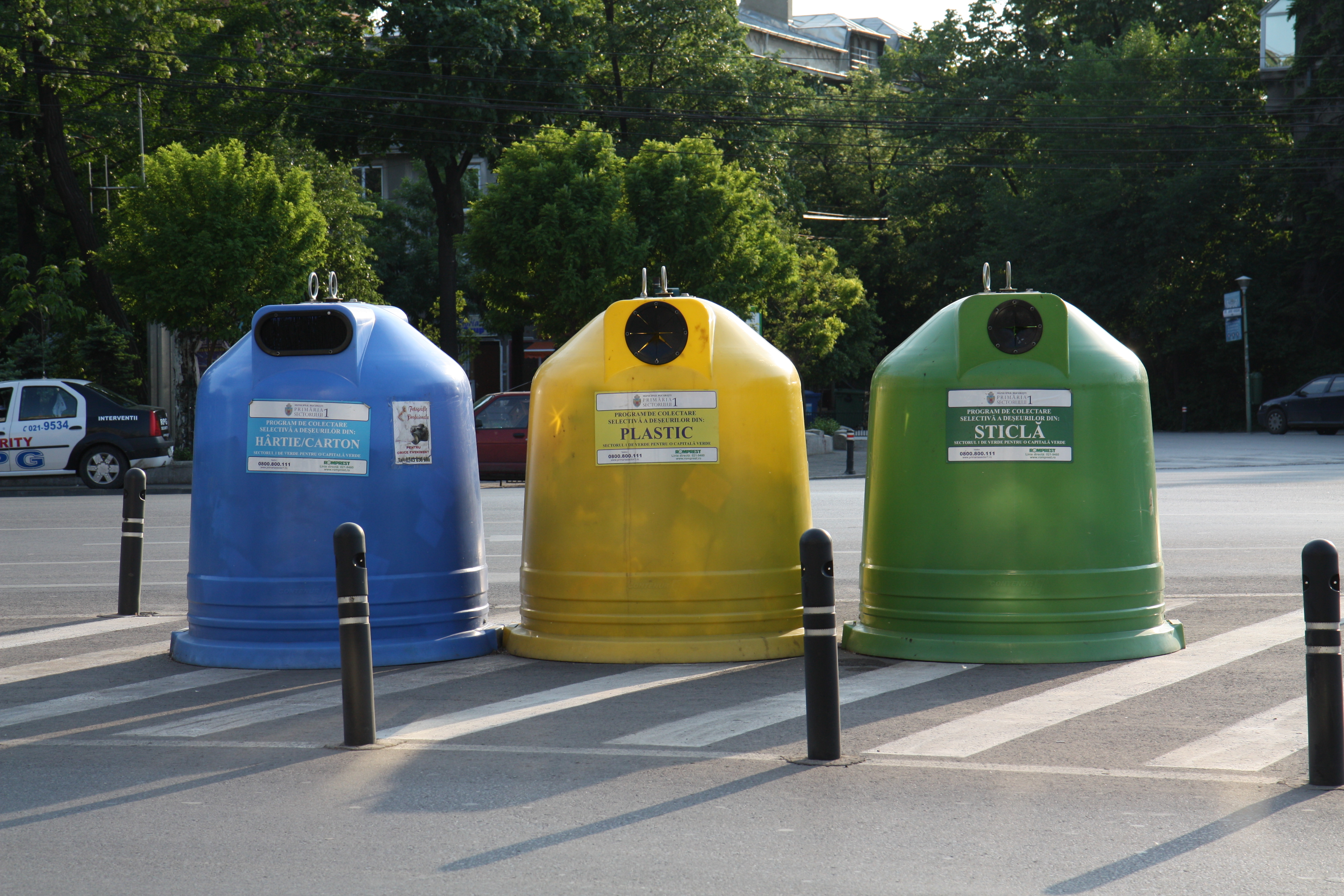 Picture of trashcans for waste sorting at Bucharest (Dorobanţi place)